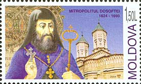 Stamp of Moldova